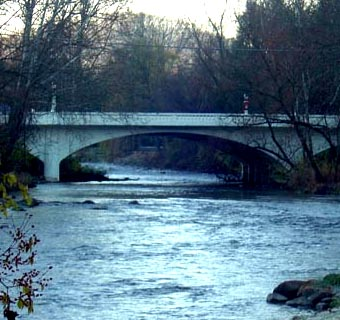 I am the creator of this photograph of the Broad Street Bridge located in Elizabethton and I waive all rights to this photograph. The Broad Street Bridge is a concrete arch bridge that is identical to the upstream Elk Avenue Bridge with the exception that the Broad Street Bridge has five traffic lanes. I also used Adobe Photoshop for color adjustment and cropping on the photograph that I had taken during the 2006 Thanksgiving holidays.